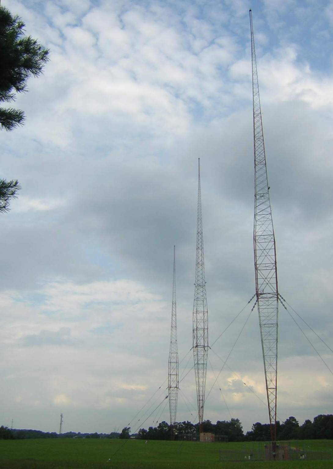 Transmitter towers of AM radio station WBT just south of Uptown Charlotte, NC. These distinctive diamond-shaped towers were constructed in 1932 by the Blaw-Knox Co. and are called Blaw-Knox towers. The purpose of the diamond-cantilever shape was to improve the horizontal radiation pattern to reduce fading, and also to make the tower rigid to shear stress so that it only needs one set of guy-lines, attached at its broad "waist". In the 1930s, multiple sets of guy lines, as are used on modern "thin" antennas, tended to interfere with the radiation pattern of the antenna.